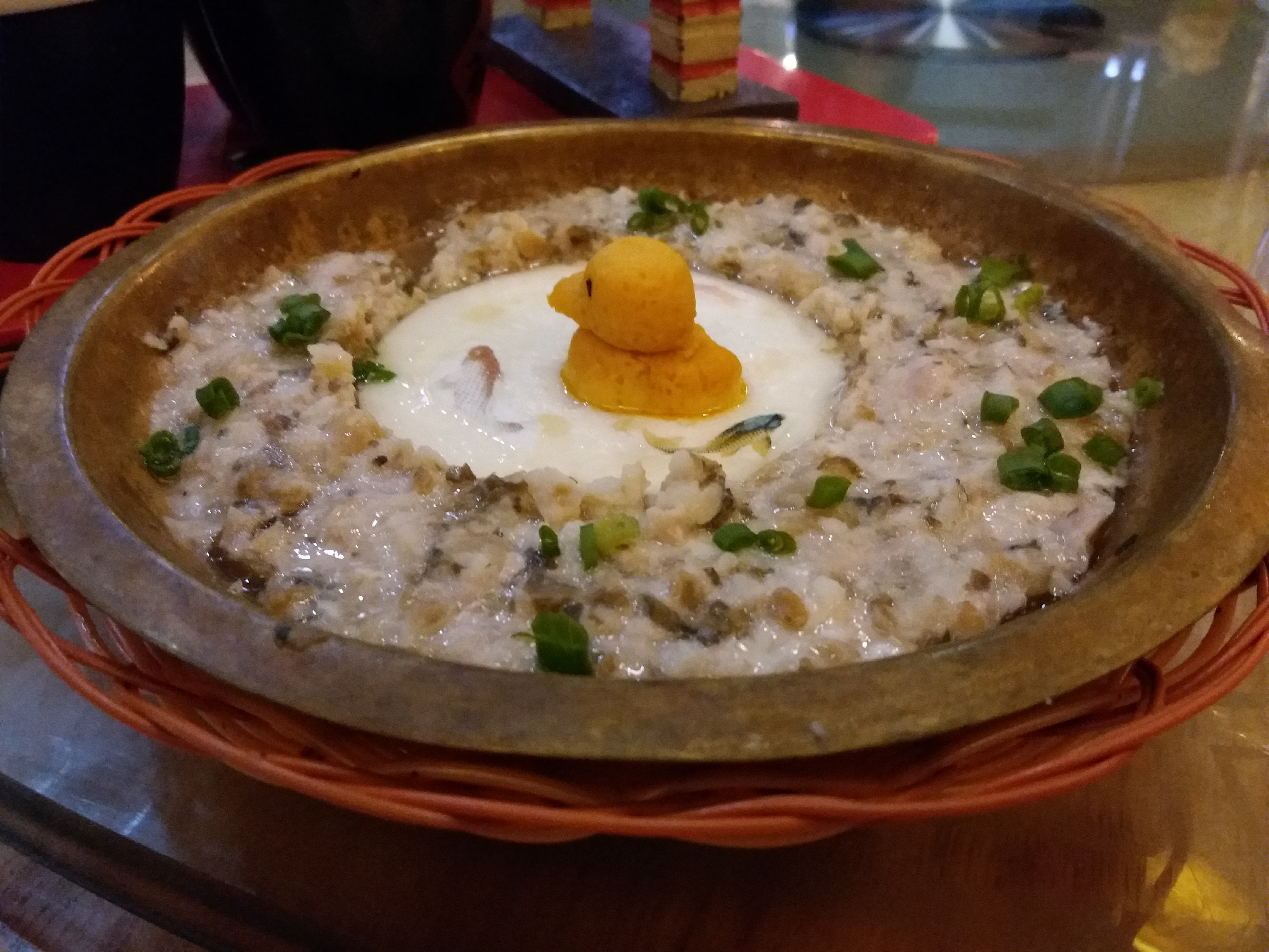 This photo has been taken in the country: China